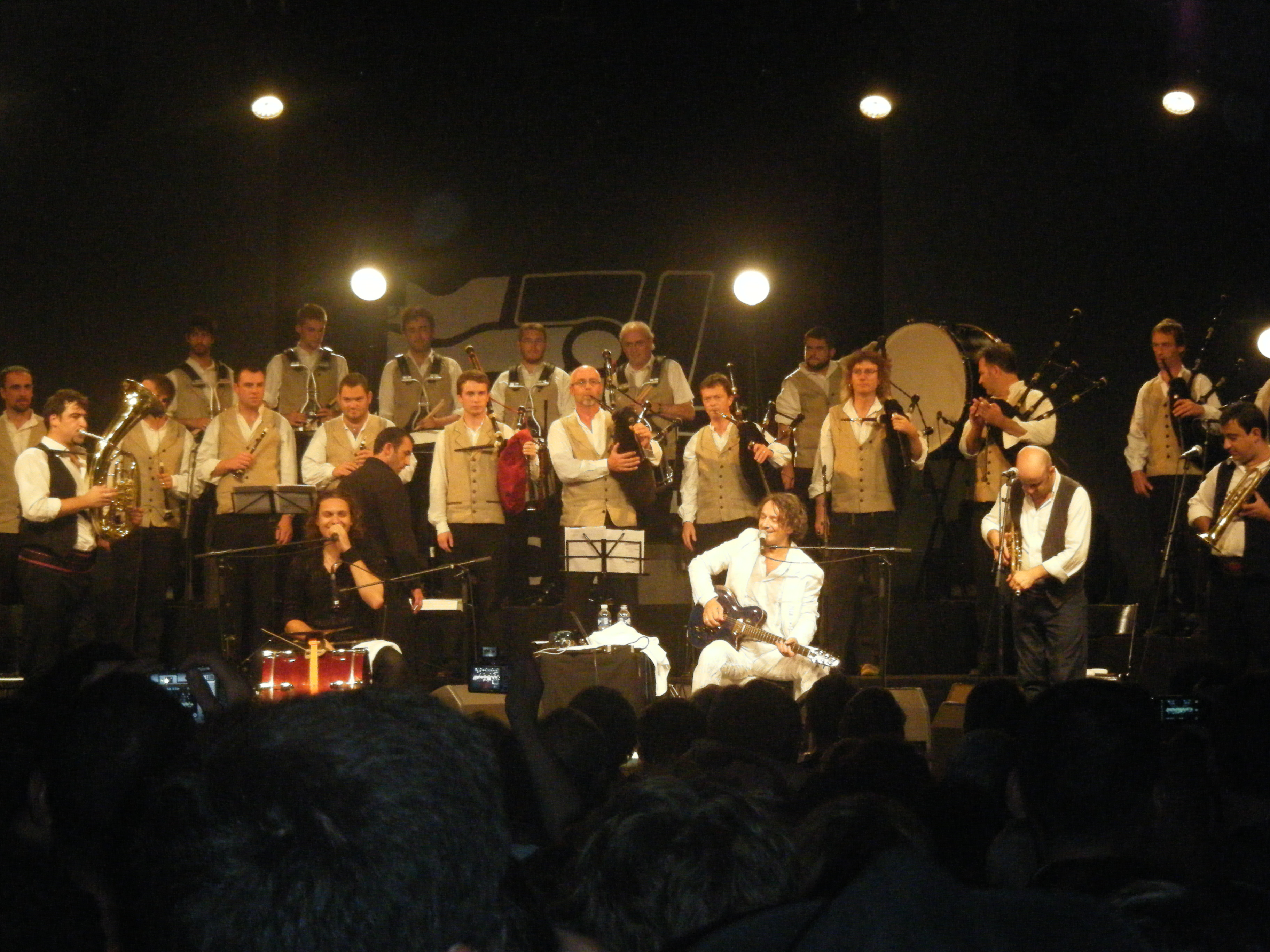 Goran Bregovic (in white) and the Wedding and Funeral Orchestra with the Saint-Malo's bagad (back of the scene, in white) during the Interceltic festival of Lorient (France).